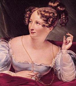 Portrait of Harriet Smithson, Irish actress and wife of Hector Berlioz, 19th c.